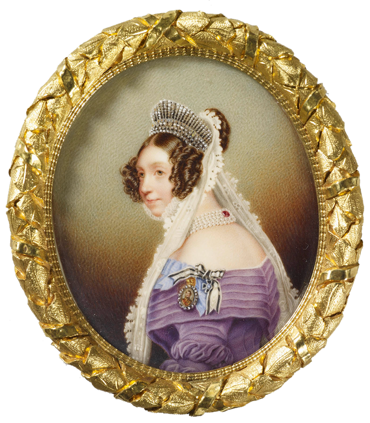 Frederica of Mecklenburg-Strelitz (1778-1841), Duchess of Cumberland, Queen of Hanover